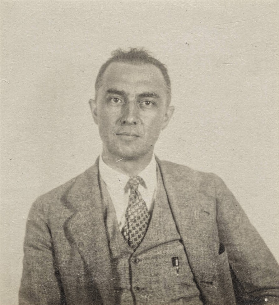 Photograph (believed to be passport photograph) of American poet and physician William Carlos Williams. Courtesy of the Beinecke Rare Book & Manuscript Library, Yale University.[1]